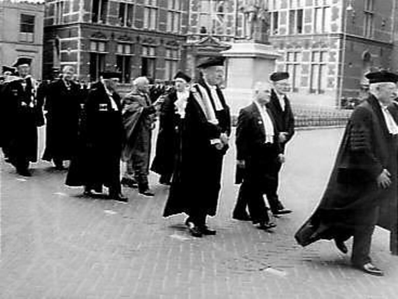 Professors of Utrecht University marching to the Academy Building (30 March 1957) on the occasion of honorary doctorates for G.B. (Geoffrey) Dowling, W.M. (Maurice) Ewing and Herman Mannheim